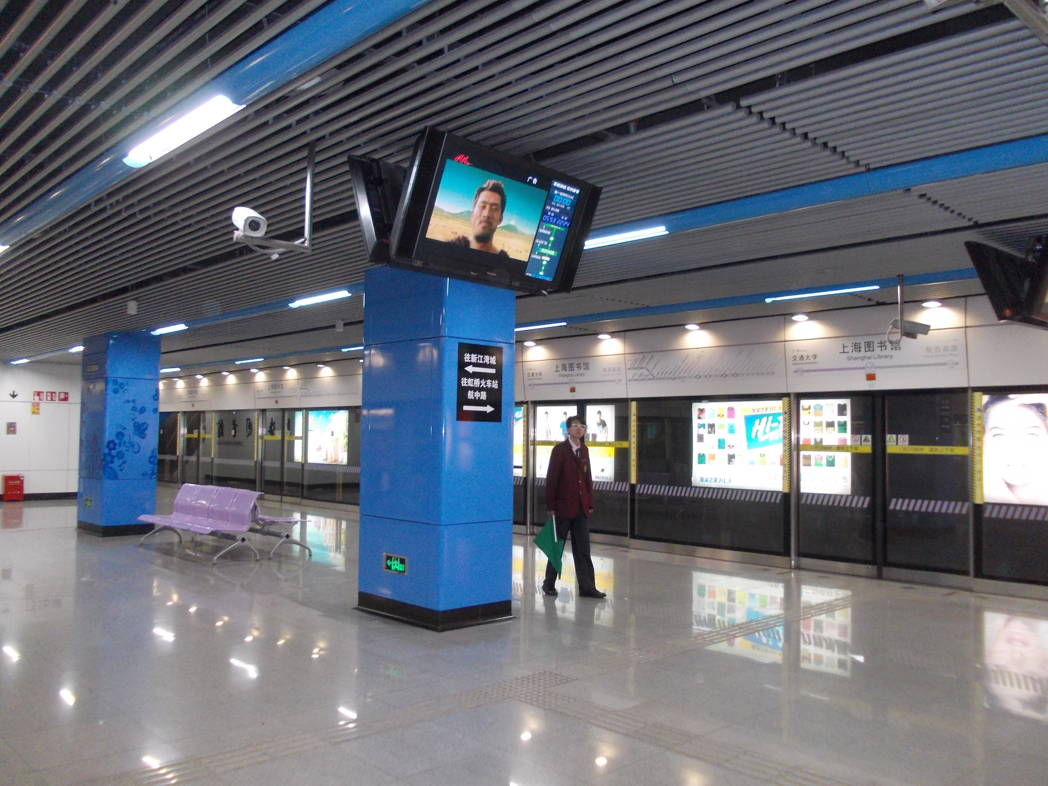 Shanghai Metro - Line 10 - Shanghai Library